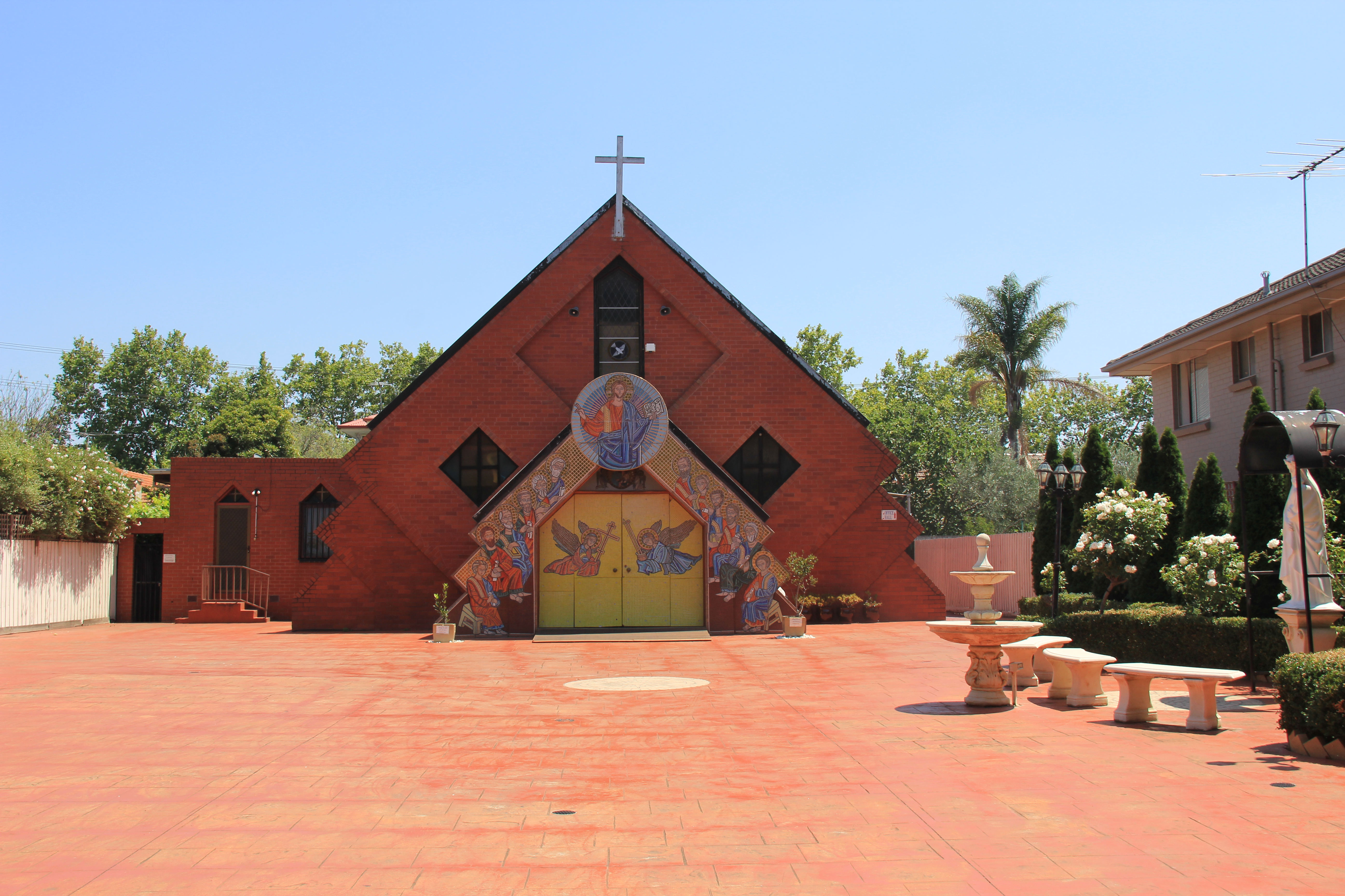 40 Gillies Street Fairfield